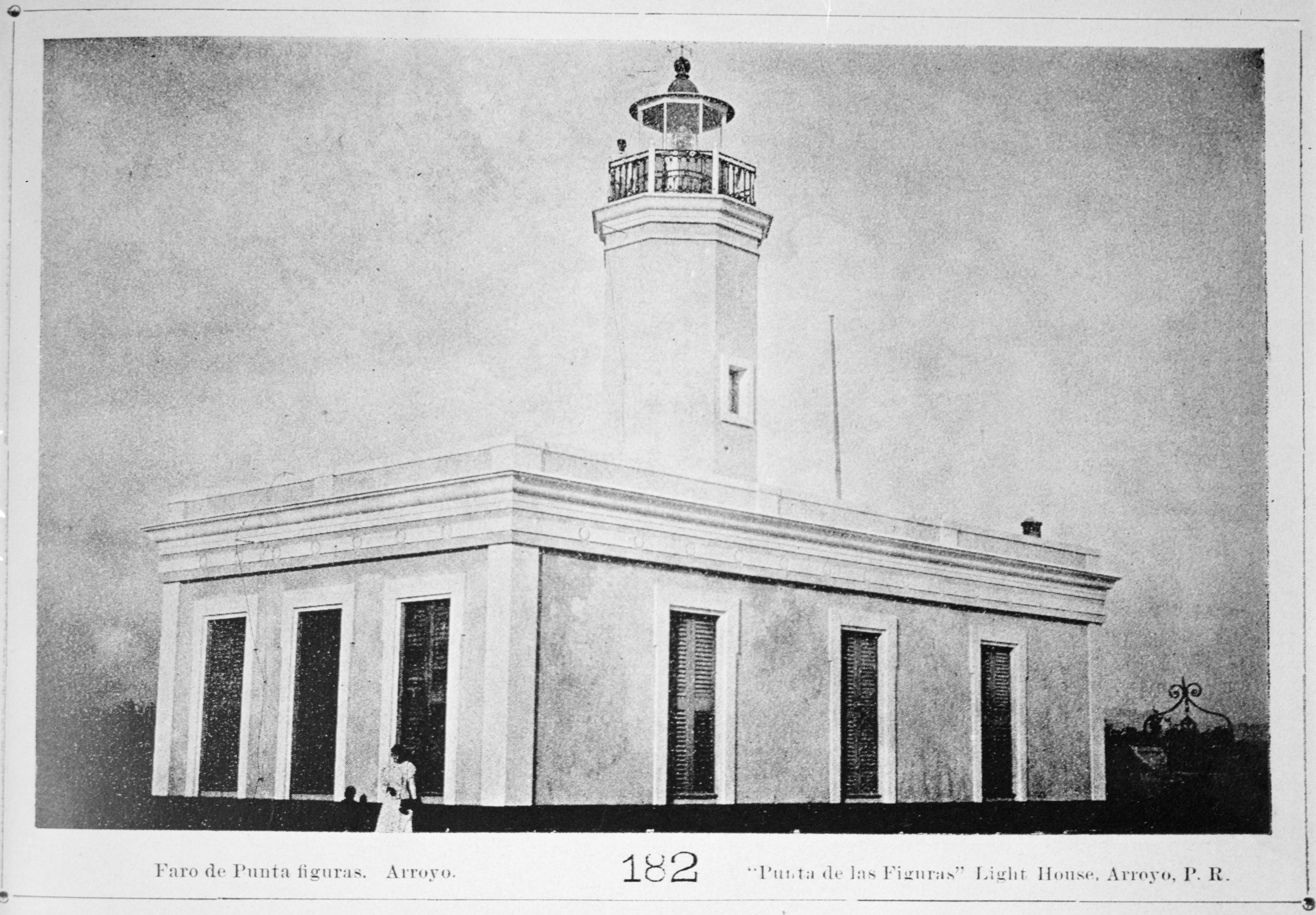 Punta Figuras Lighthouse (Arroyo, Puerto Rico), ca 1898